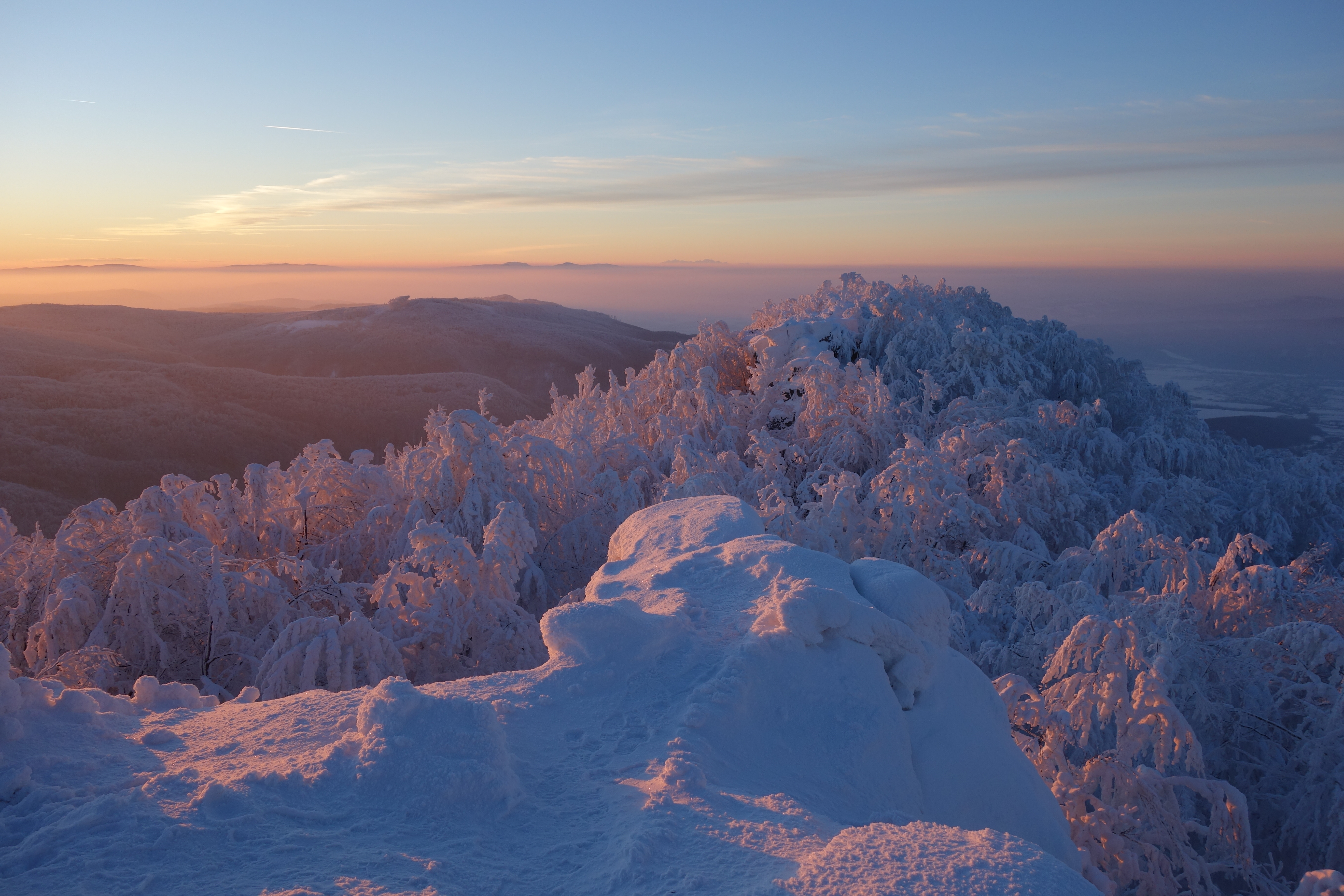 View of the Big Sninský kameň from the Small Sninský kameň in winter at sunset This is a photography of Natura 2000 protected area with ID SKUEV0209